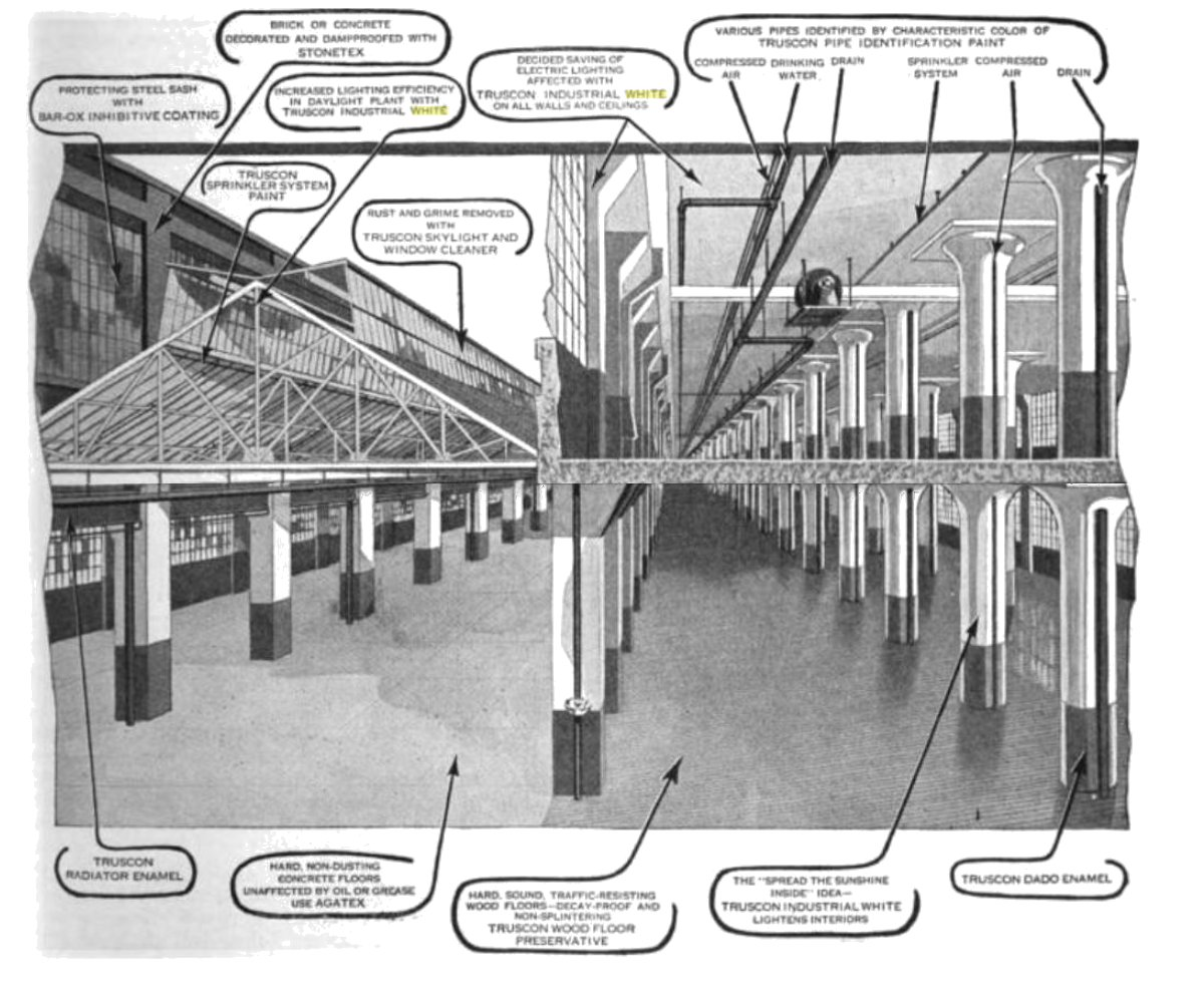 Truscon waterproofing paste method example usage of where to use